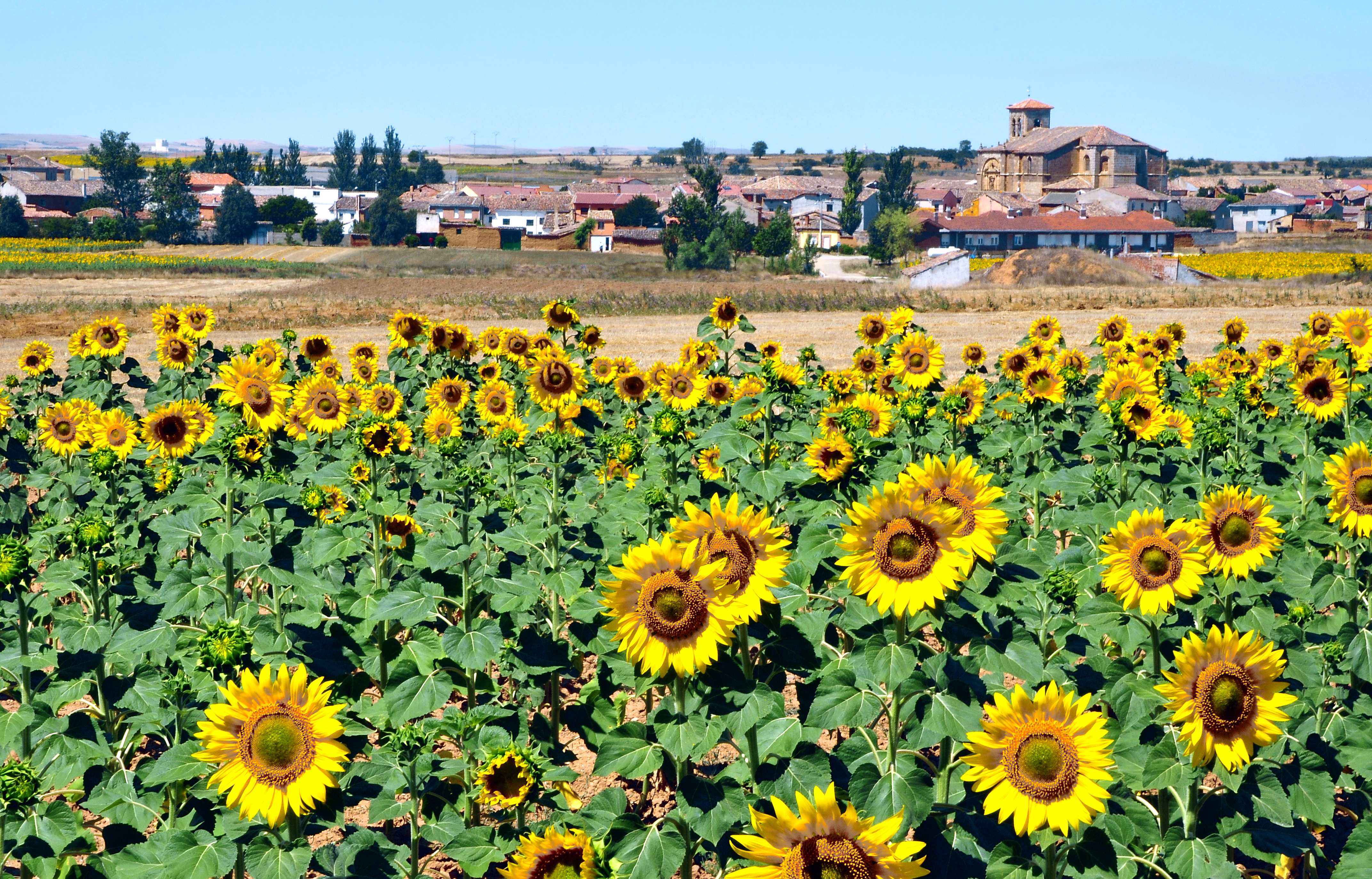 The village and it's surroundings. Padilla de Abajo, Burgos, Castile and Leon, Spain